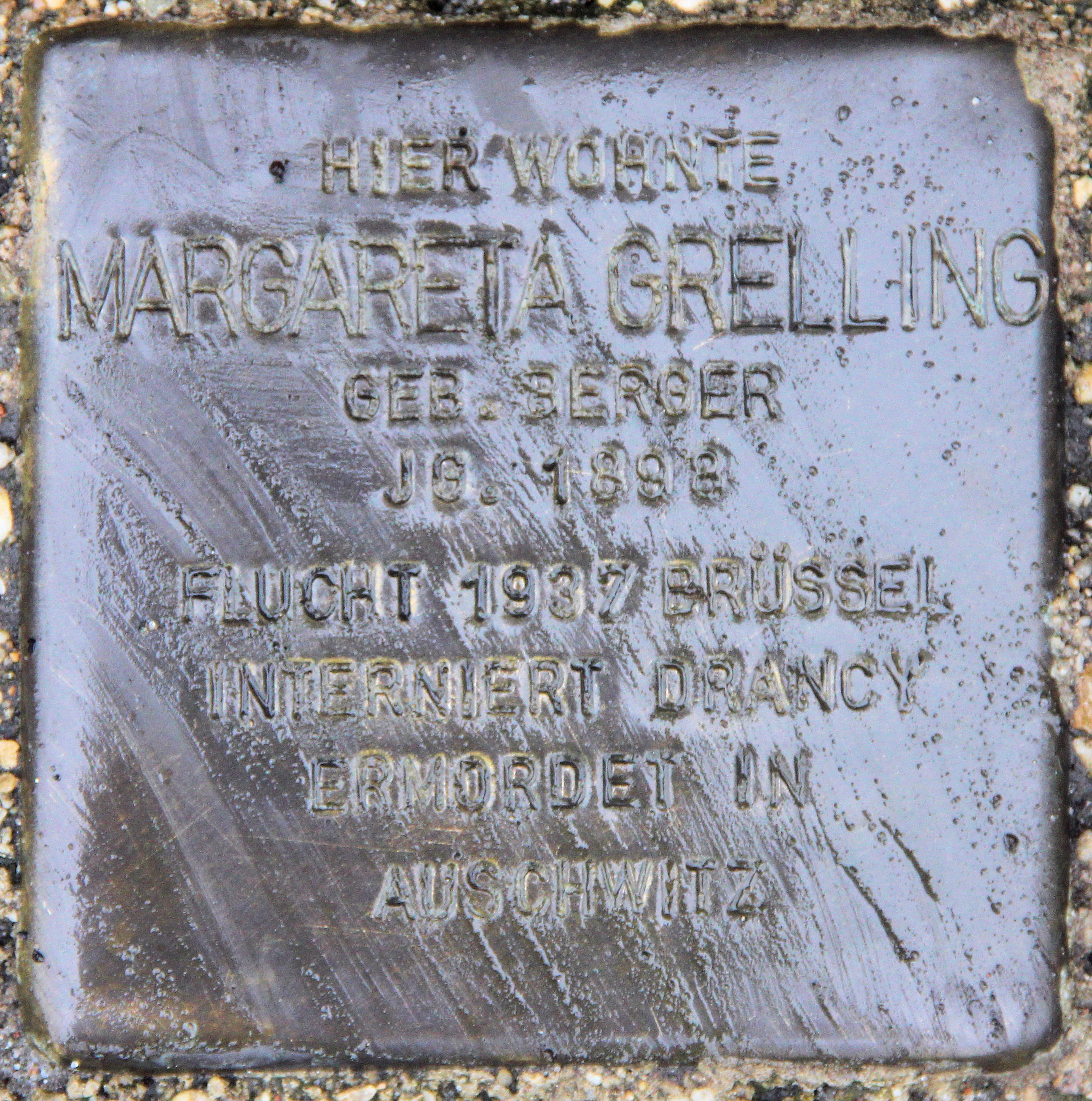 "Stolperstein" (stumbling block), Margareta Grelling, Königsberger Straße 13, Berlin-Lichterfelde, Germany Koordinate:52°25′49″N 13°19′10″E / 52.43028°N 13.31944°E